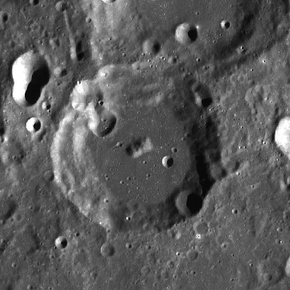 Petropavlovskiy lunar crater - LROC image